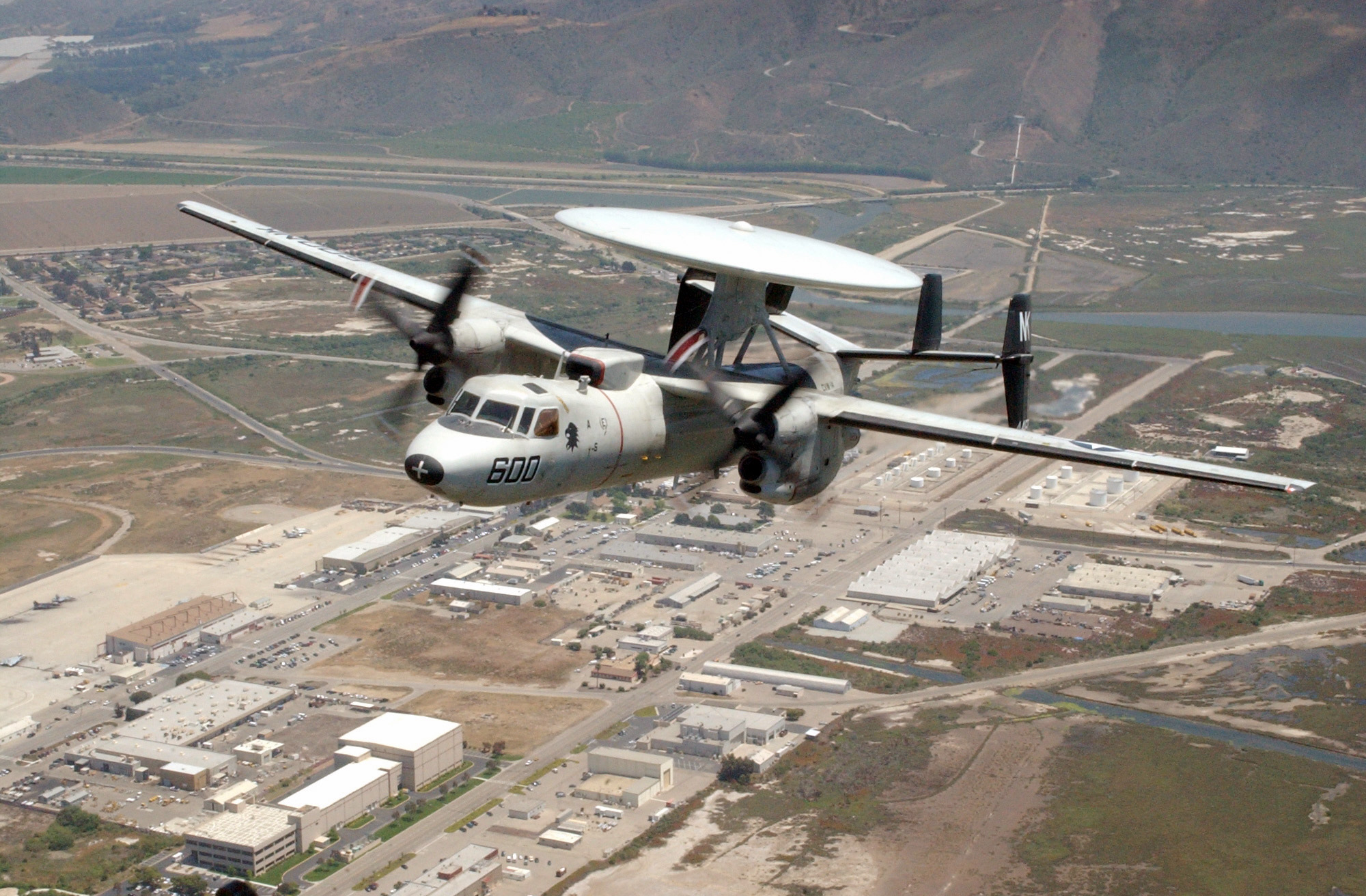 A US Navy (USN) E-2C Hawkeye assigned to the Carrier Early Warning Squadron 113 (VAW-113), Black Eagles, flies over its home station Naval Air Station (NAS) Point Mugu, California (CA), during a training exercise. The Hawkeye provides all-weather airborne early warning, airborne battle management and command and control functions for the Carrier Strike Group and Joint Force Commander. (Released to Public) Location: PT. MAGU, CALIFORNIA (CA) UNITED STATES OF AMERICA (USA) DoD photo by: JO2 THOMAS PETERSON, USN Date Shot: 6 May 2004